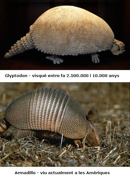 Comparison of Glyptodon and Nine-banded Armadillo, with text in Catalan